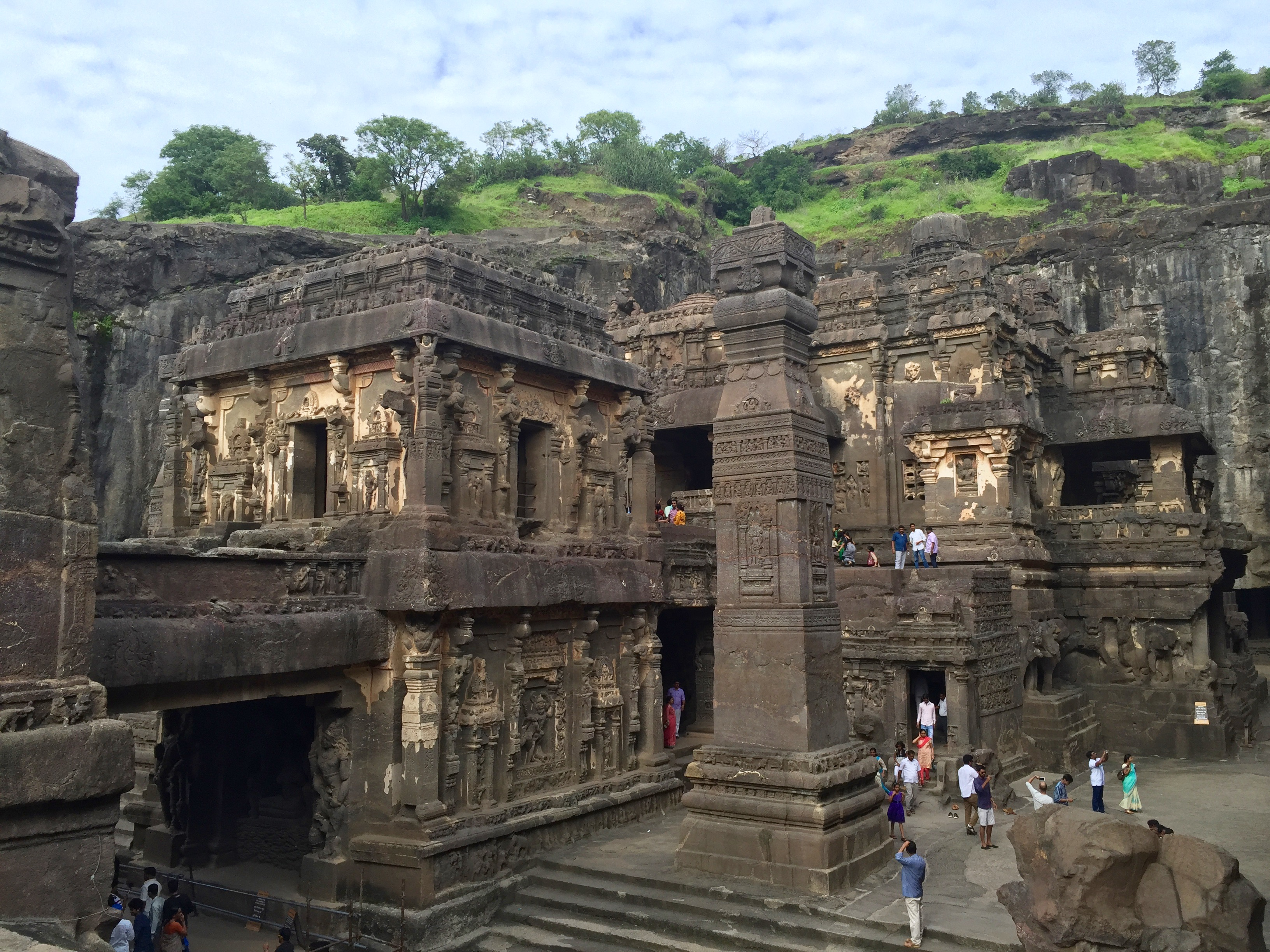 Cave 16 of Ellora, Kailasha Kailasa Kailashanath Hindu temple